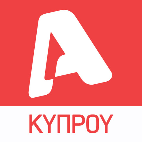 The Logo of Alpha TV Cyprus, a Cypriot TV Channel created in 2016.